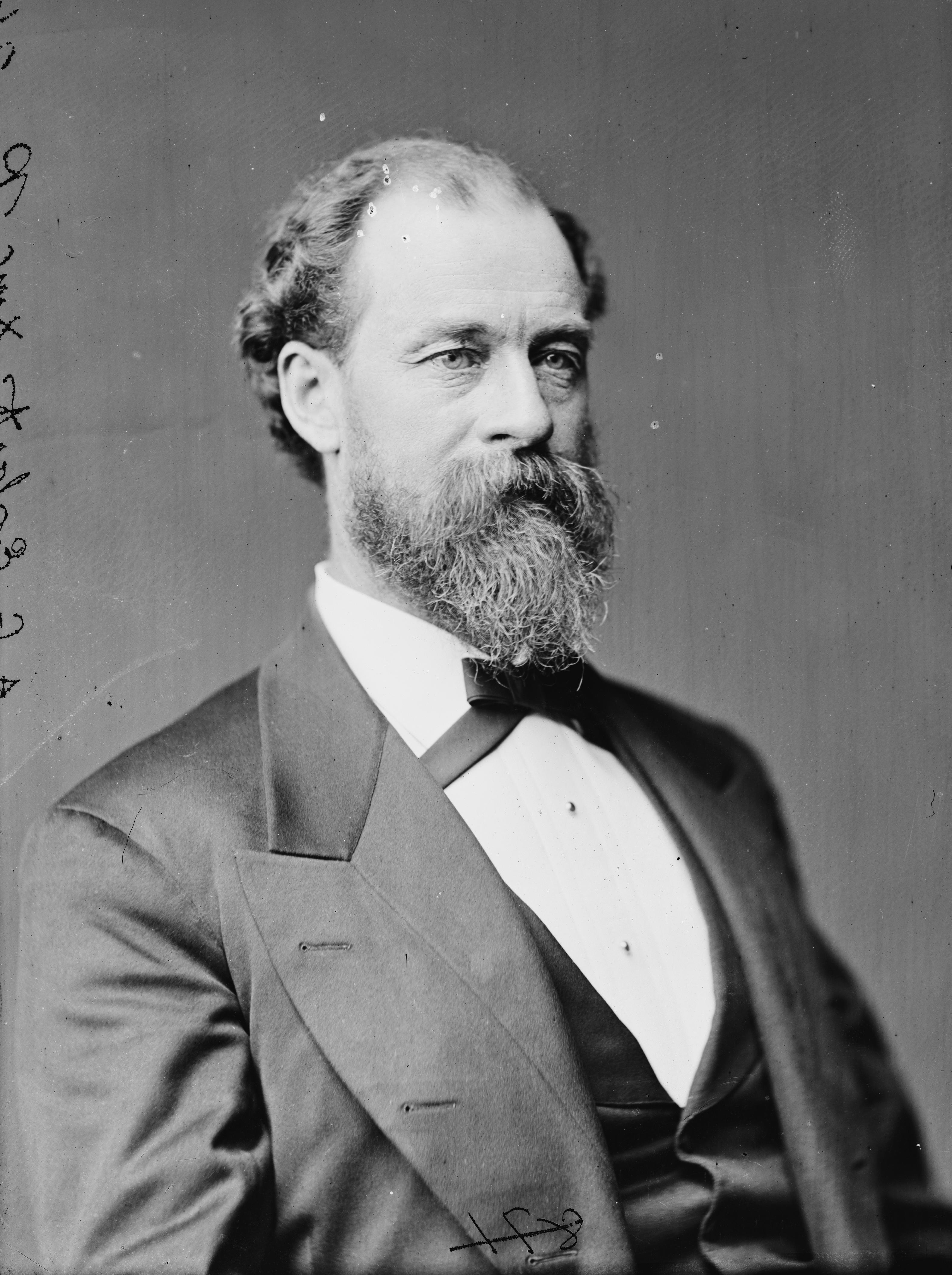 Albert Gallatin Egbert. Library of Congress description: "Egbert, Hon. A. G. of PA"